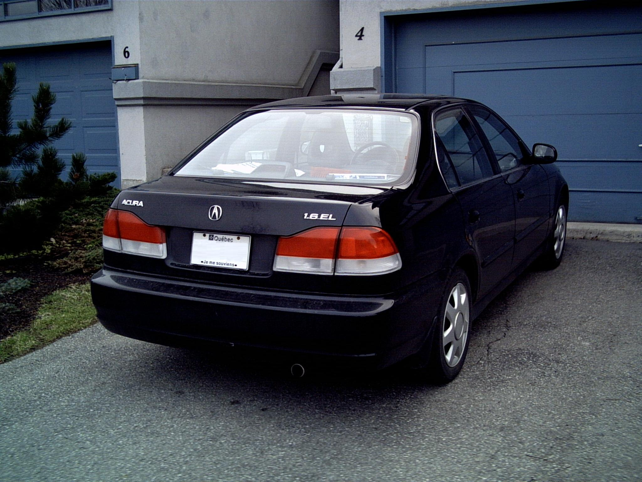 Acura 1.6 EL